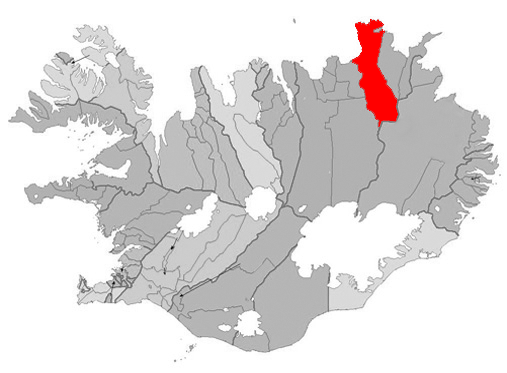 Based on Municipalities of Iceland.png.